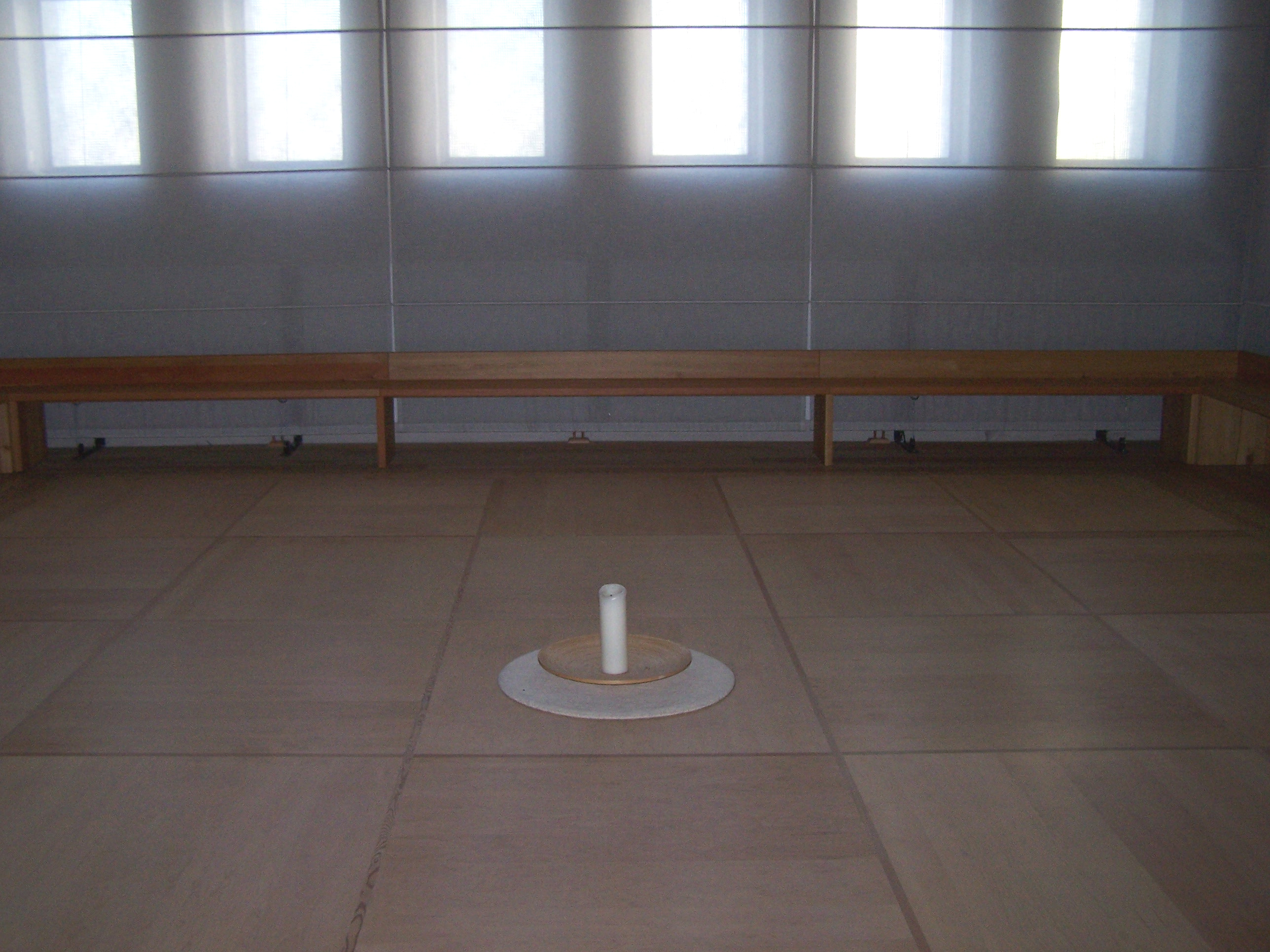 Meditation area in the crypt of the Holy Cross Church of the Centre for Christian Meditation and Spirituality of the Diocese of Limburg in Frankfurt am Main-Bornheim